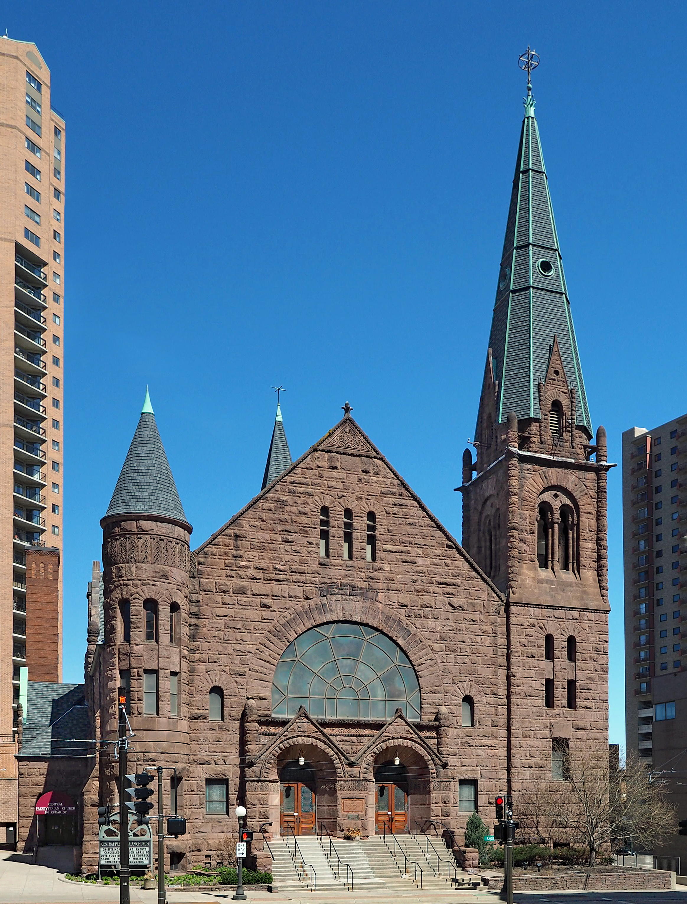 Central Presbyterian Church, 500 Cedar St, Saint Paul, Minnesota, USA. Viewed from the west.